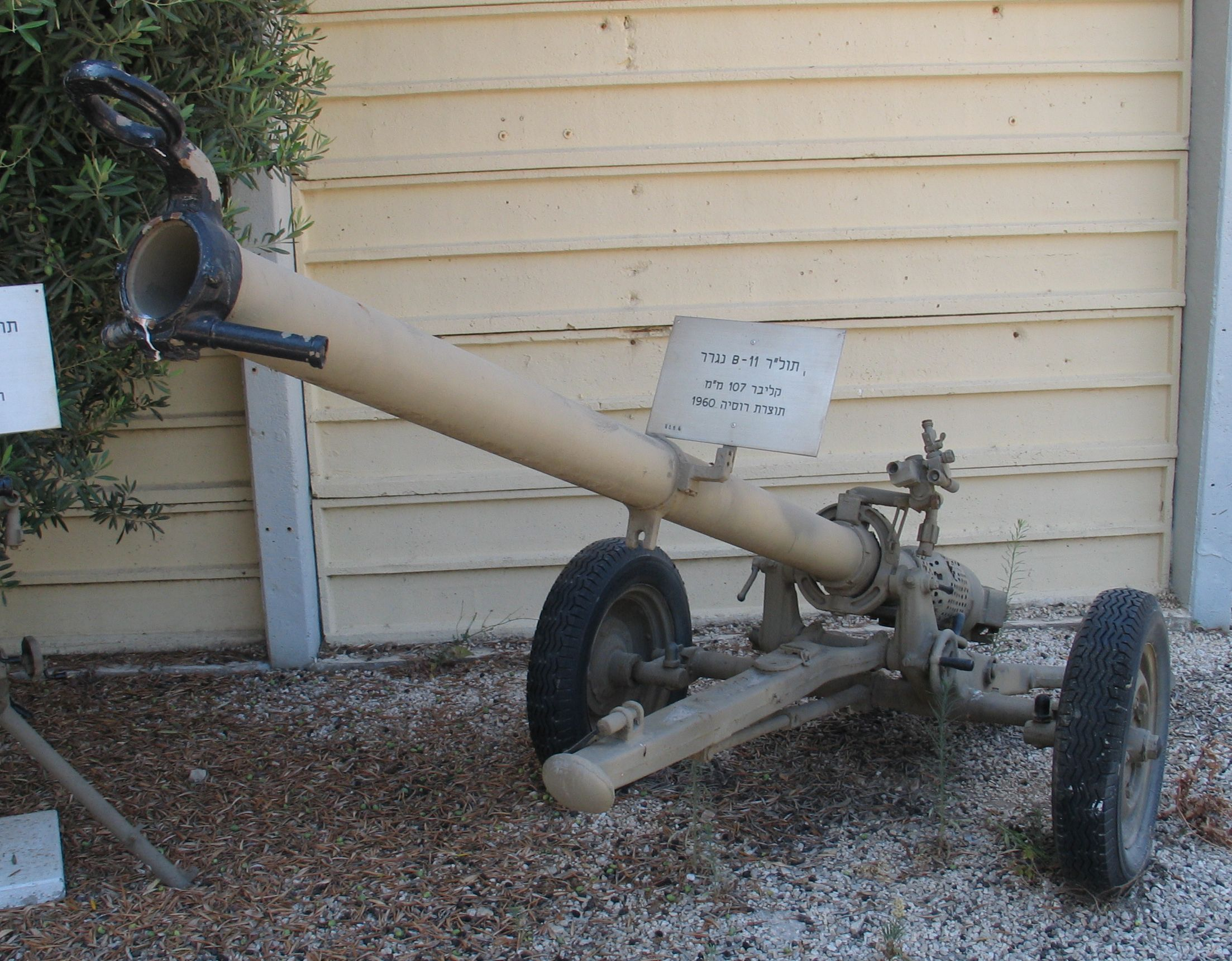 Soviet B-11 recoilless rifle in Batey ha-Osef Museum, Tel Aviv, Israel.